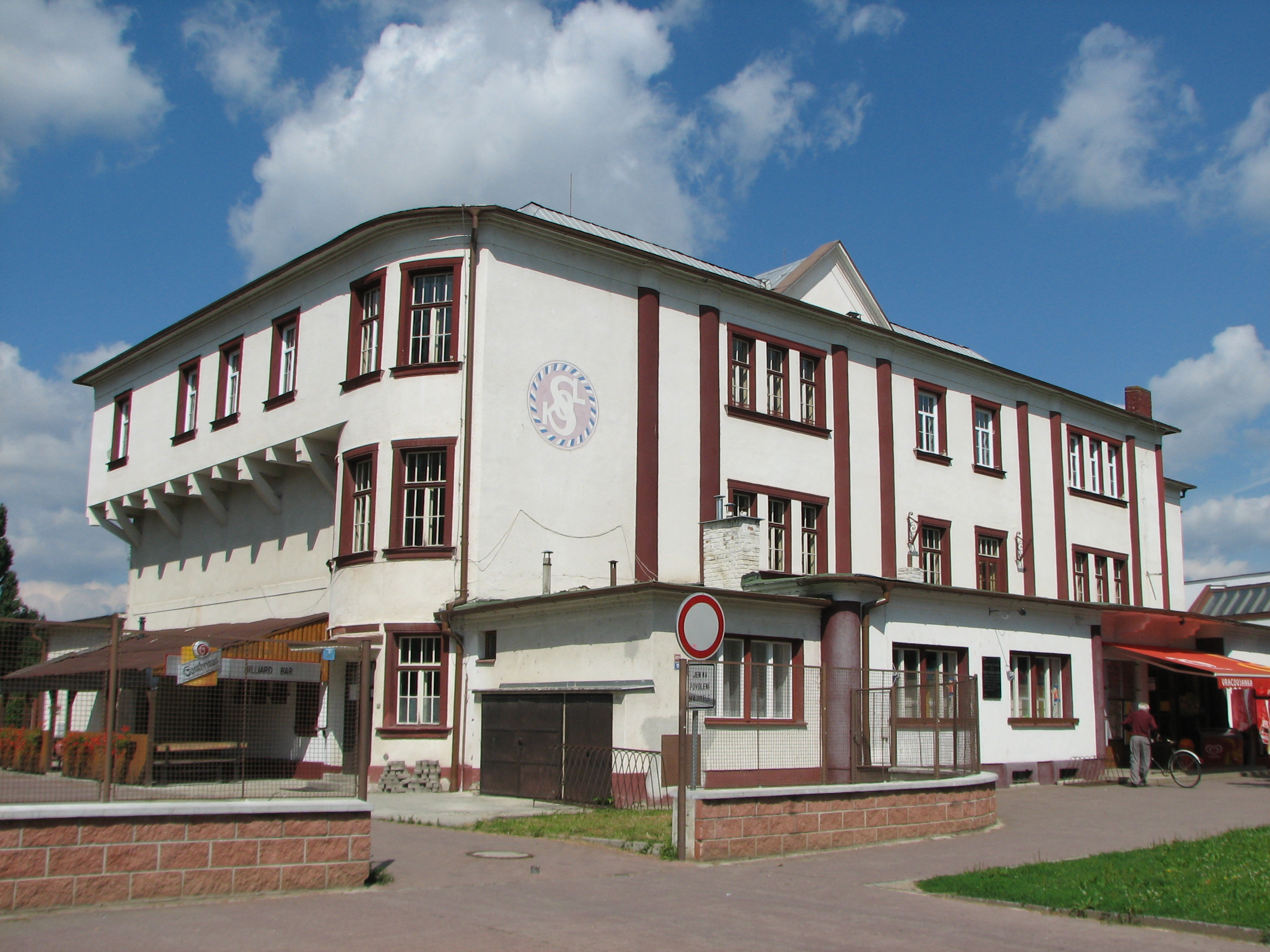 Kyjov - Sokol house